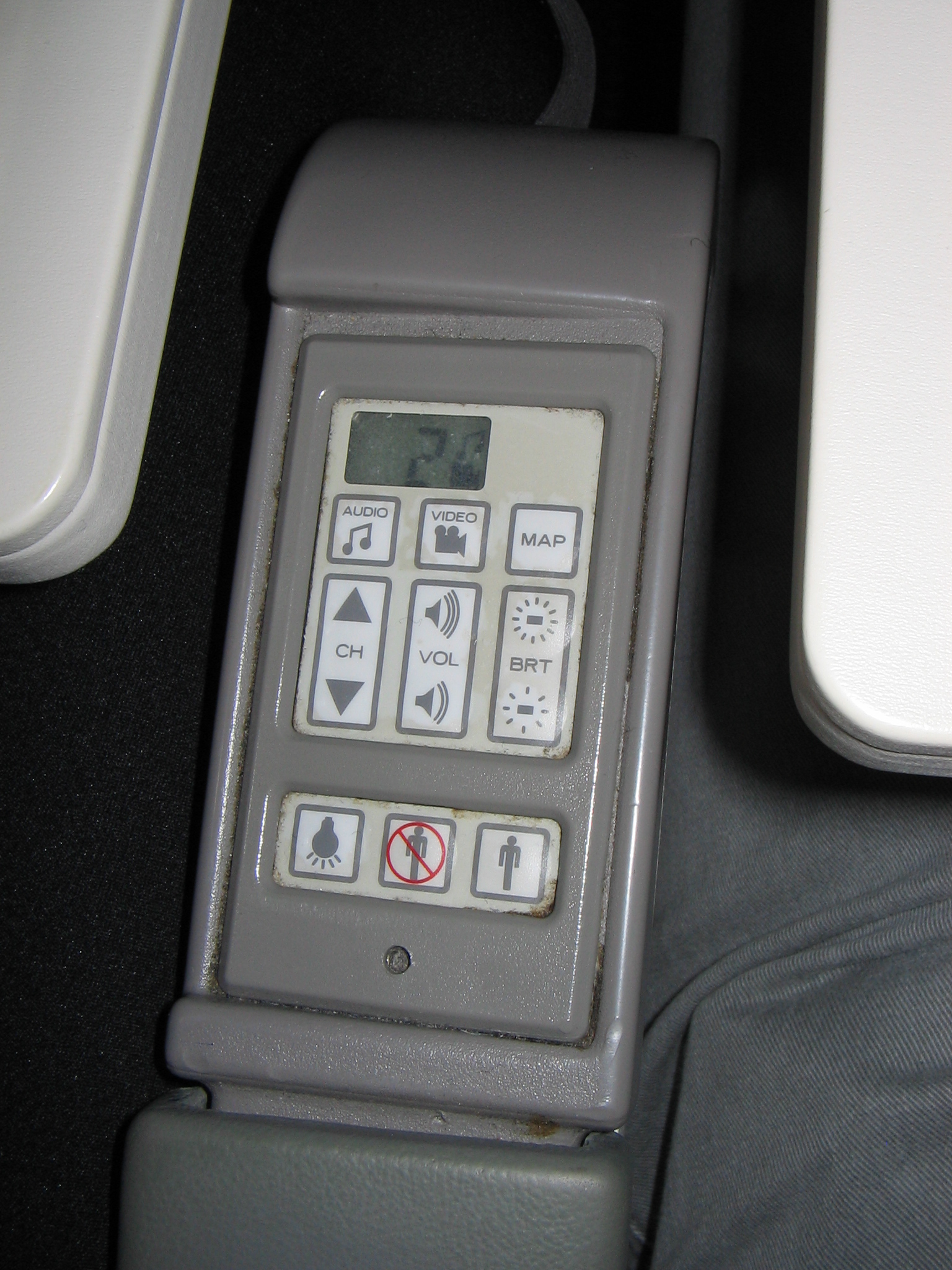 IFE controls integrated in a economy class seat's armrest in a United Airlines Boeing 767-300ER